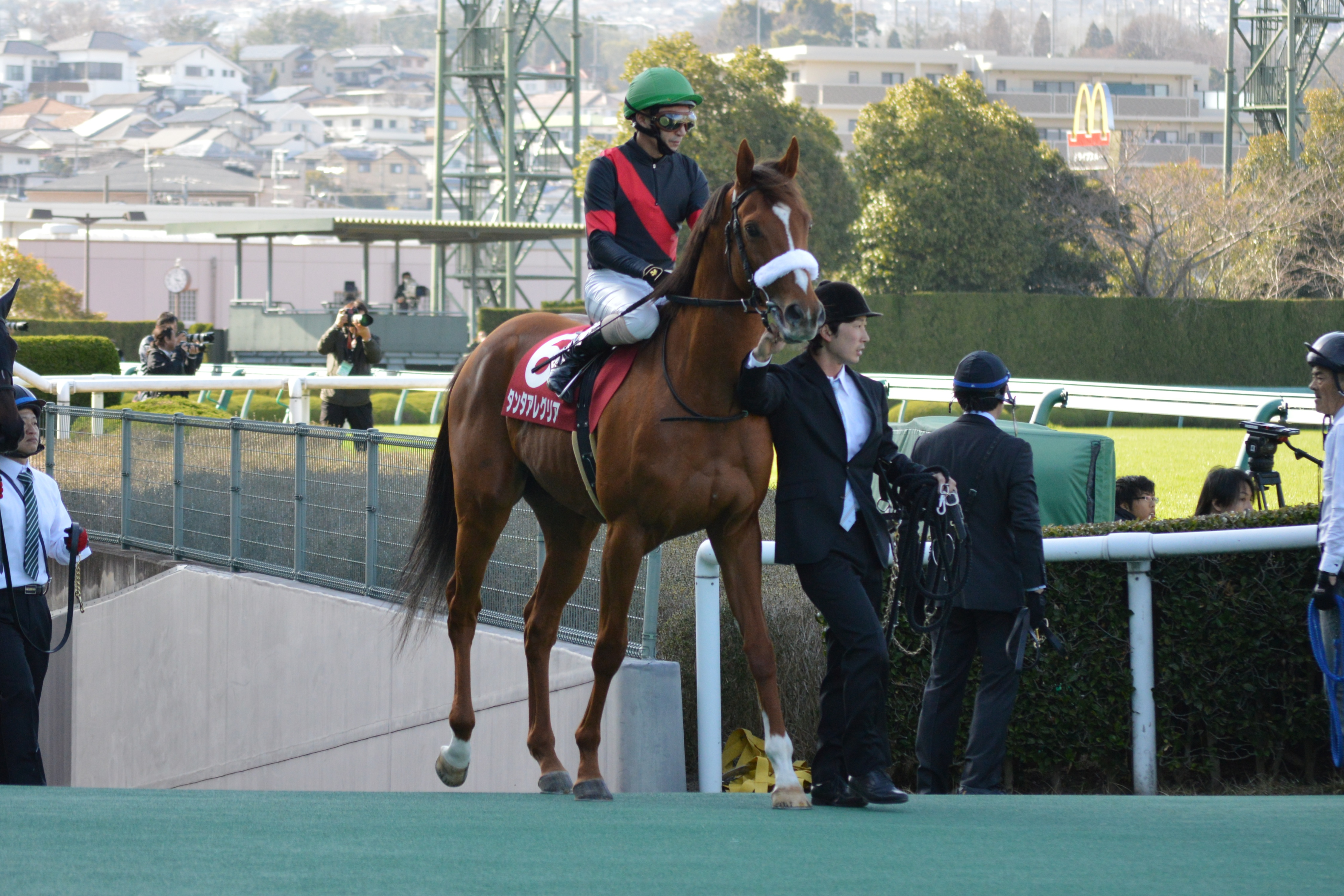 Japanese race horse Tanta Alegria at Hanshin racecourse.